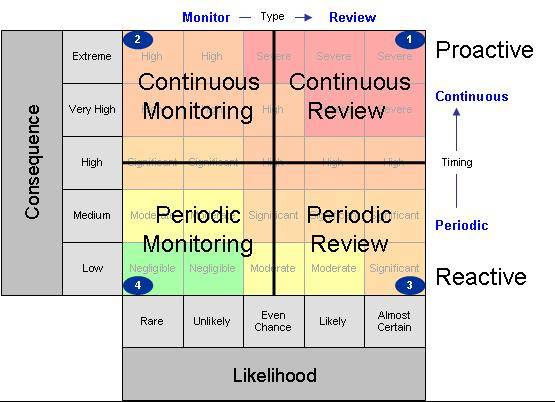 Mapping a strategic regulatory stance to the risk matrix